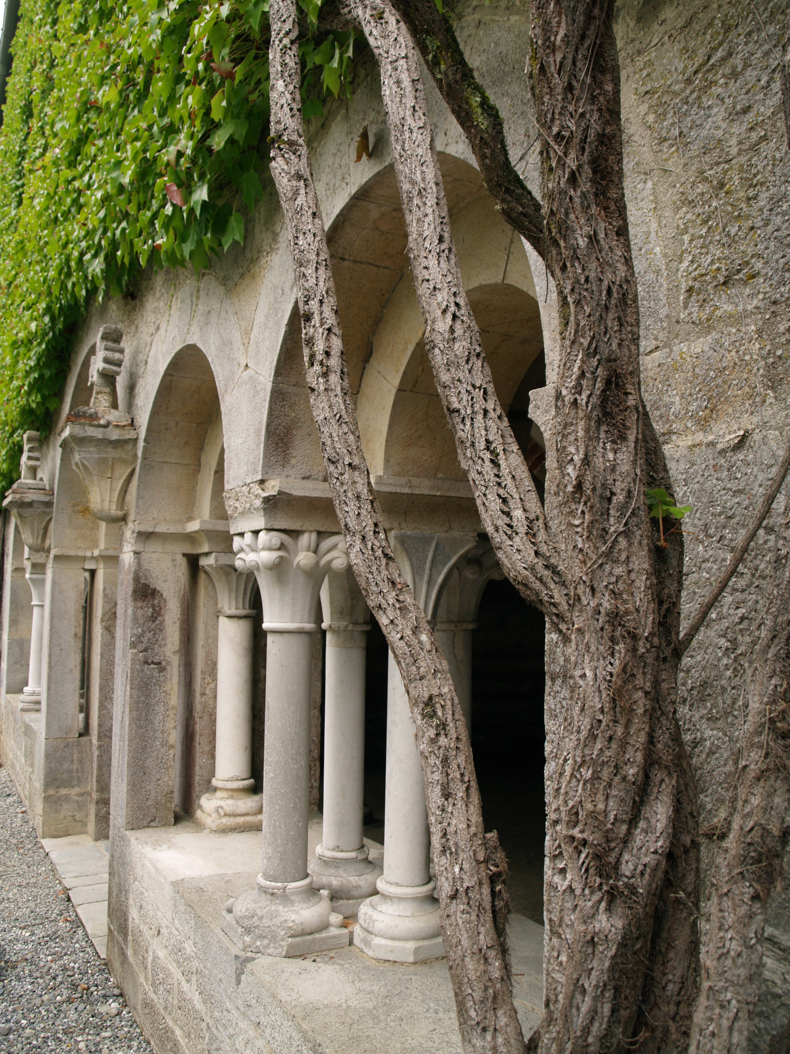 Cloister of the abbey of Escaladieu (Hautes-Pyrénées, France)